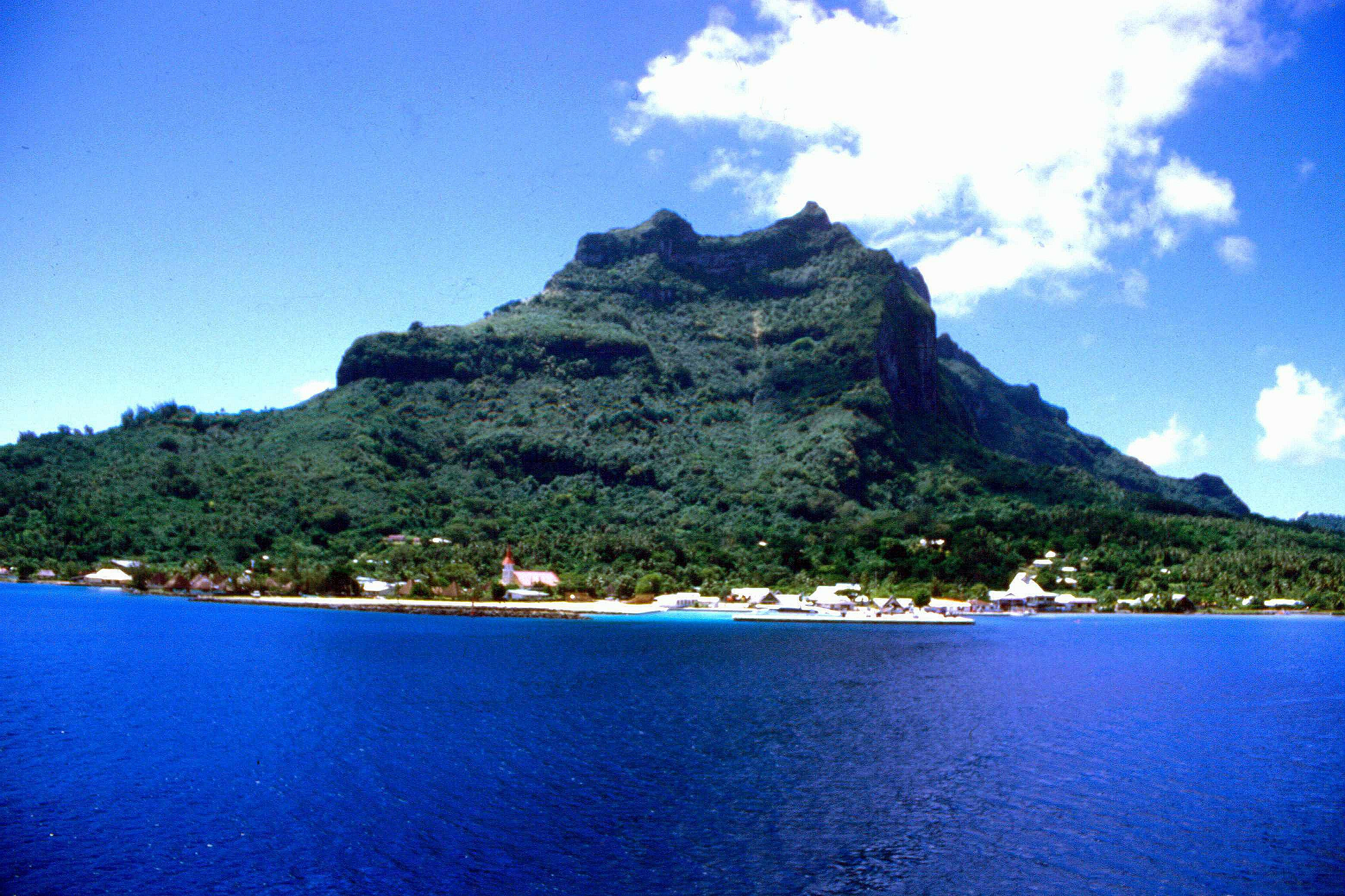 Vaitape, main village of Bora Bora, Society Islands, French Polynesia